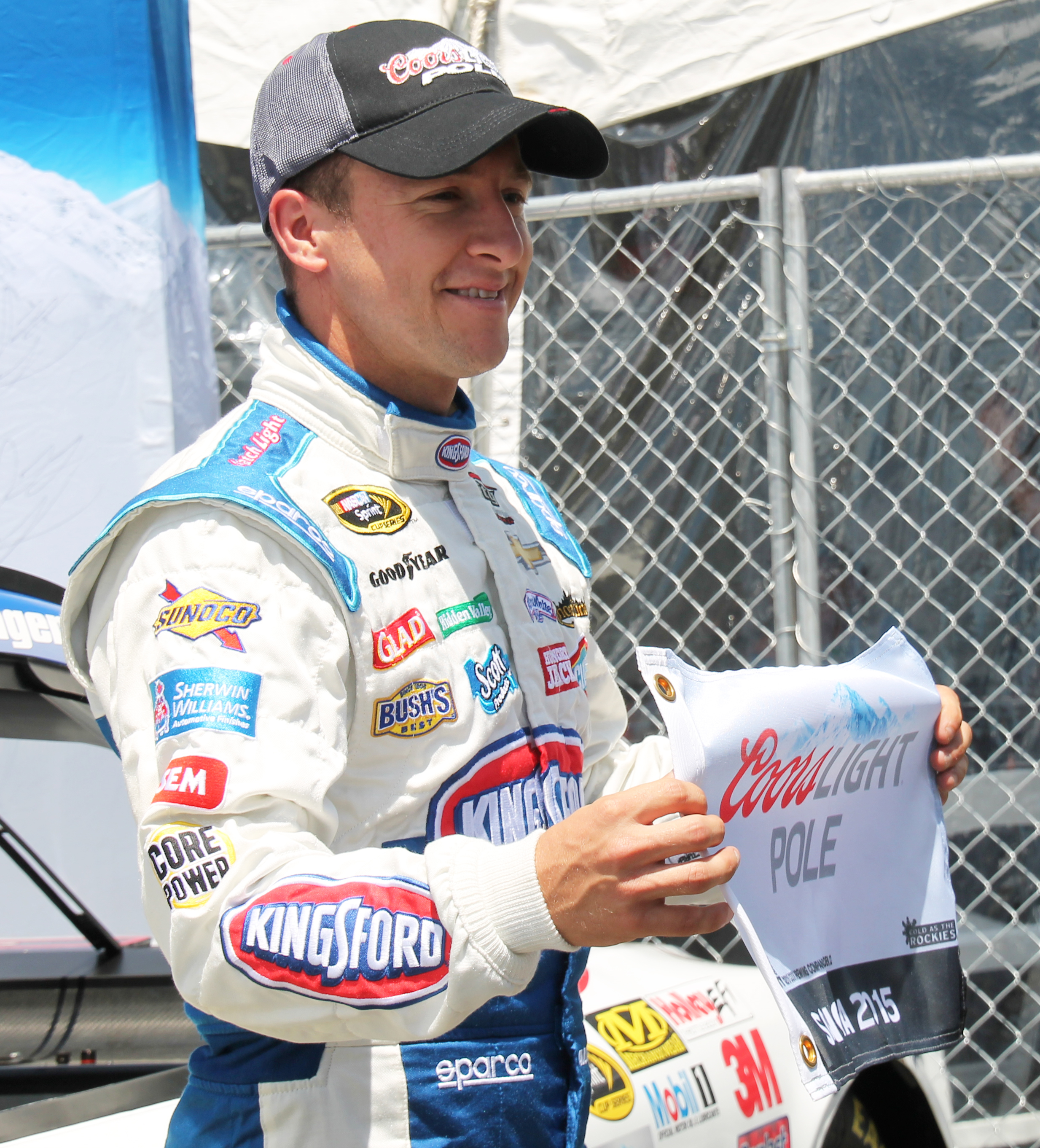 AJ Allmendinger after taking the pole at qualifications at the 2015 Toyota/Save Mart 350, Sonoma California